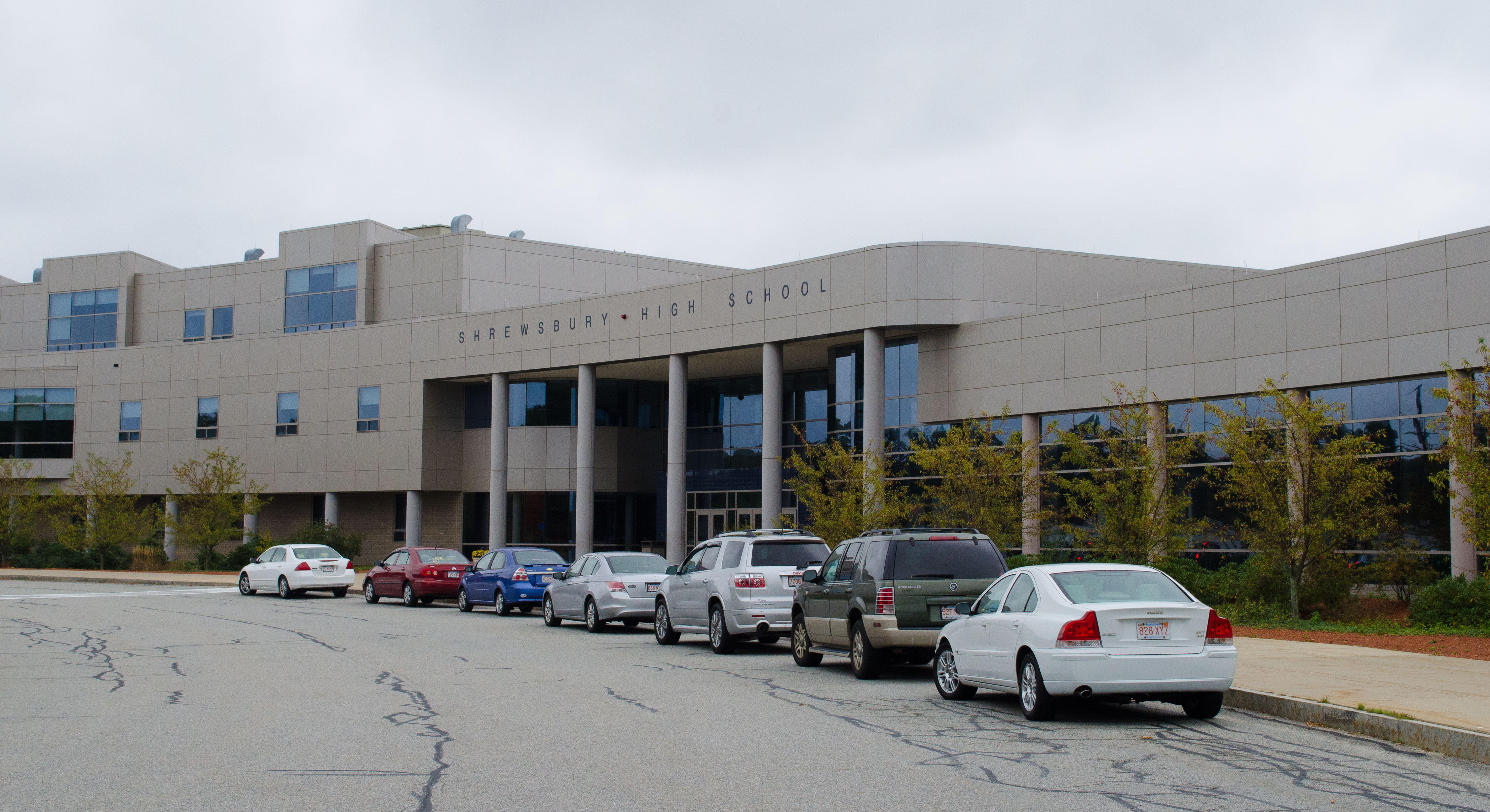 The exterior main building of Shrewsbury High School in Shrewsbury, Massachusetts.